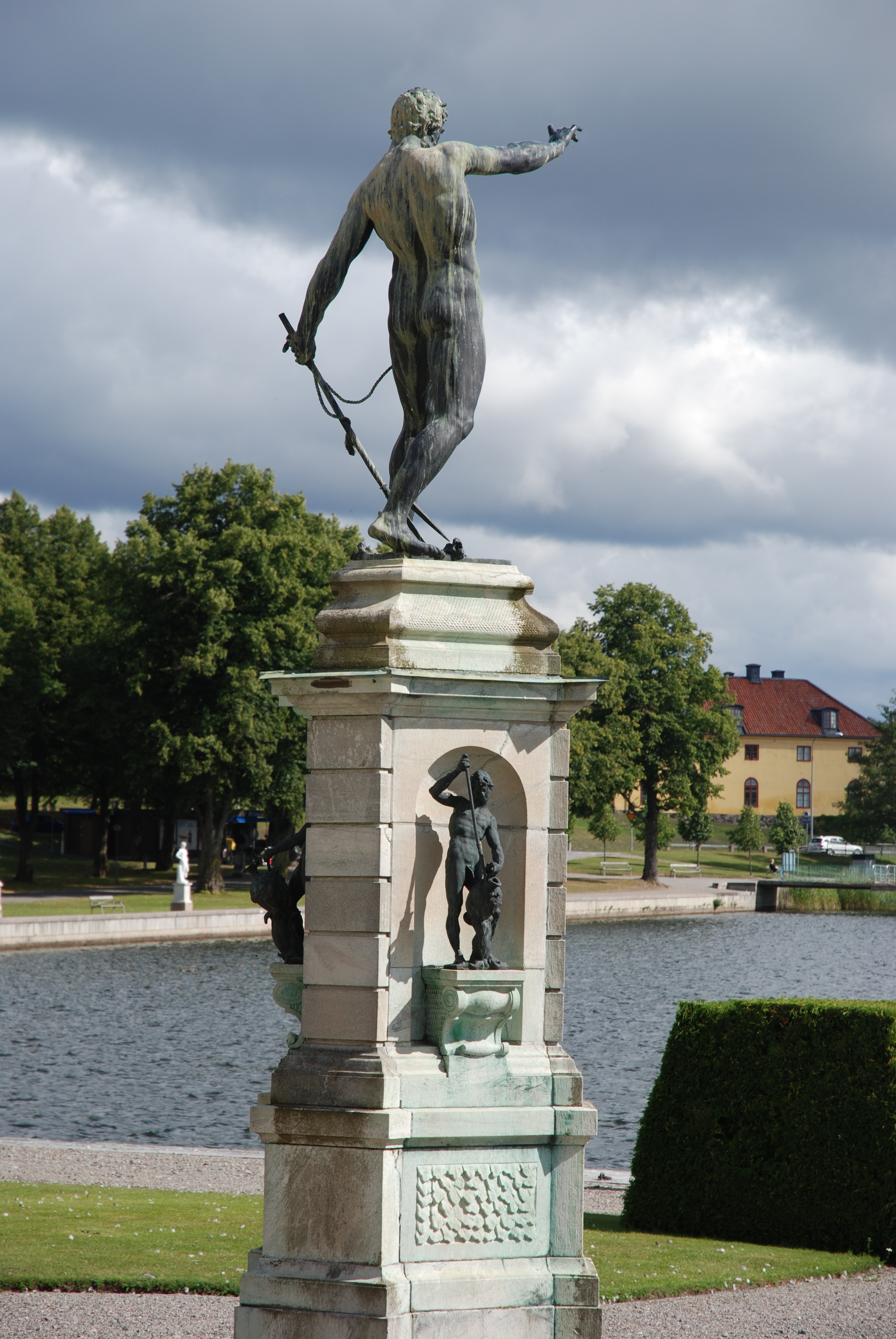 Adriaen de Vries Neptunus with a trident, Dottningholm Castle